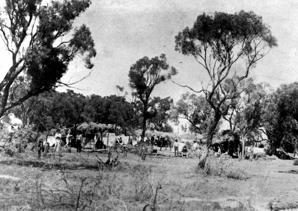 Union camp in Barcaldine during the 1891 Shearers' Strike.